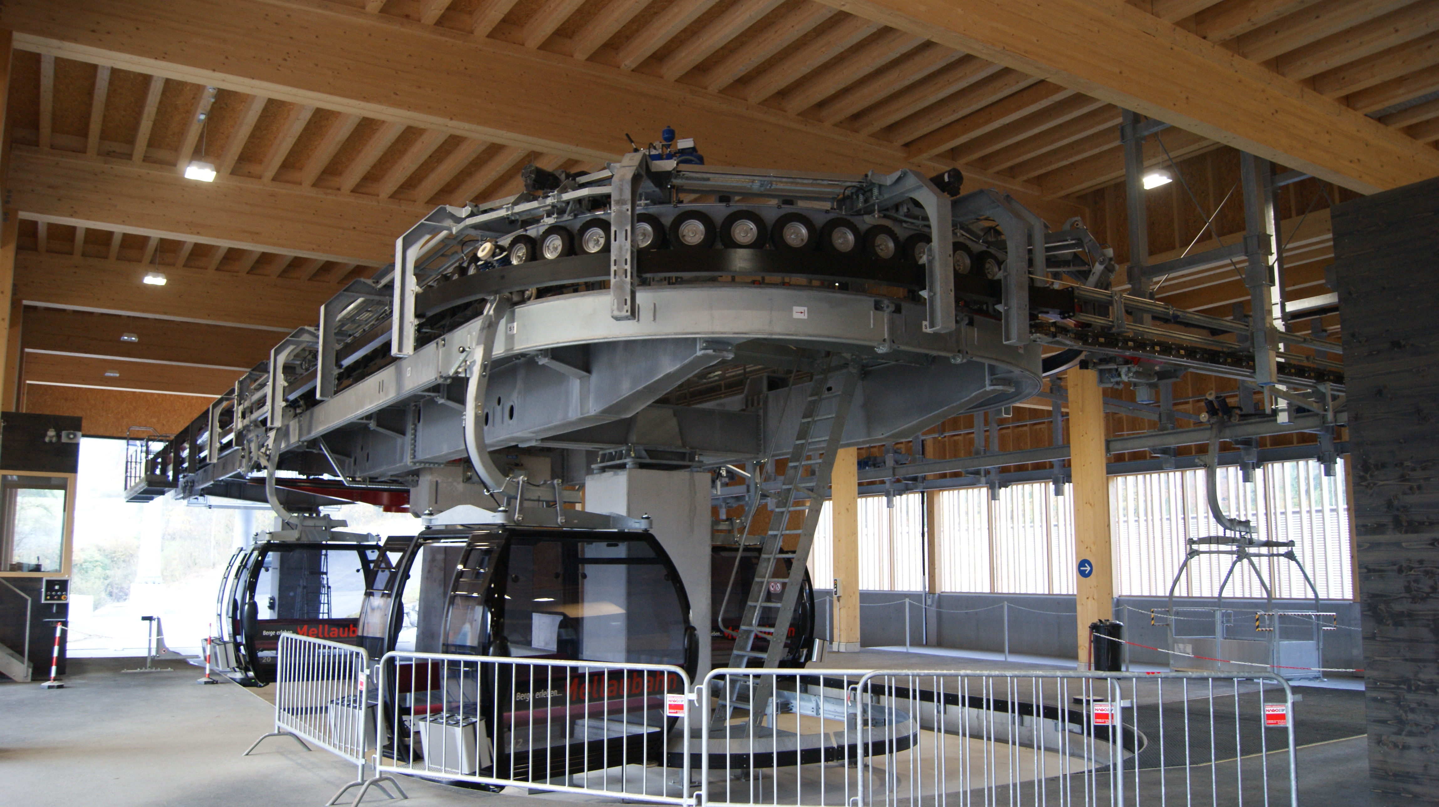 Reversing sheaves and entrance in the lower station of the "Mellaubahn" in Mellau, Vorarlberg, Austria.